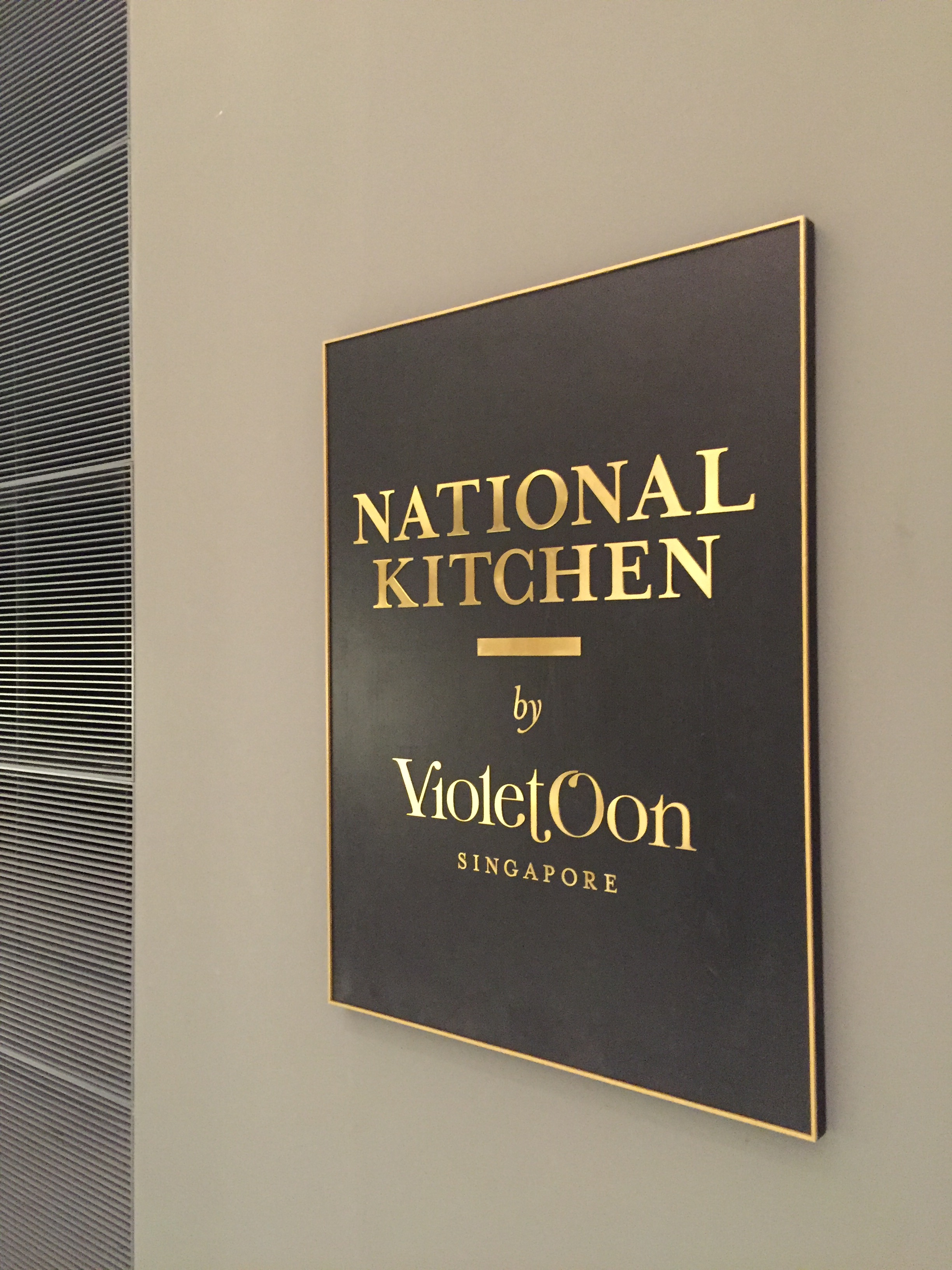 The sign of National Kitchen by Violet Oon, a restaurant on Level 2 of the City Hall Wing of the National Gallery Singapore.